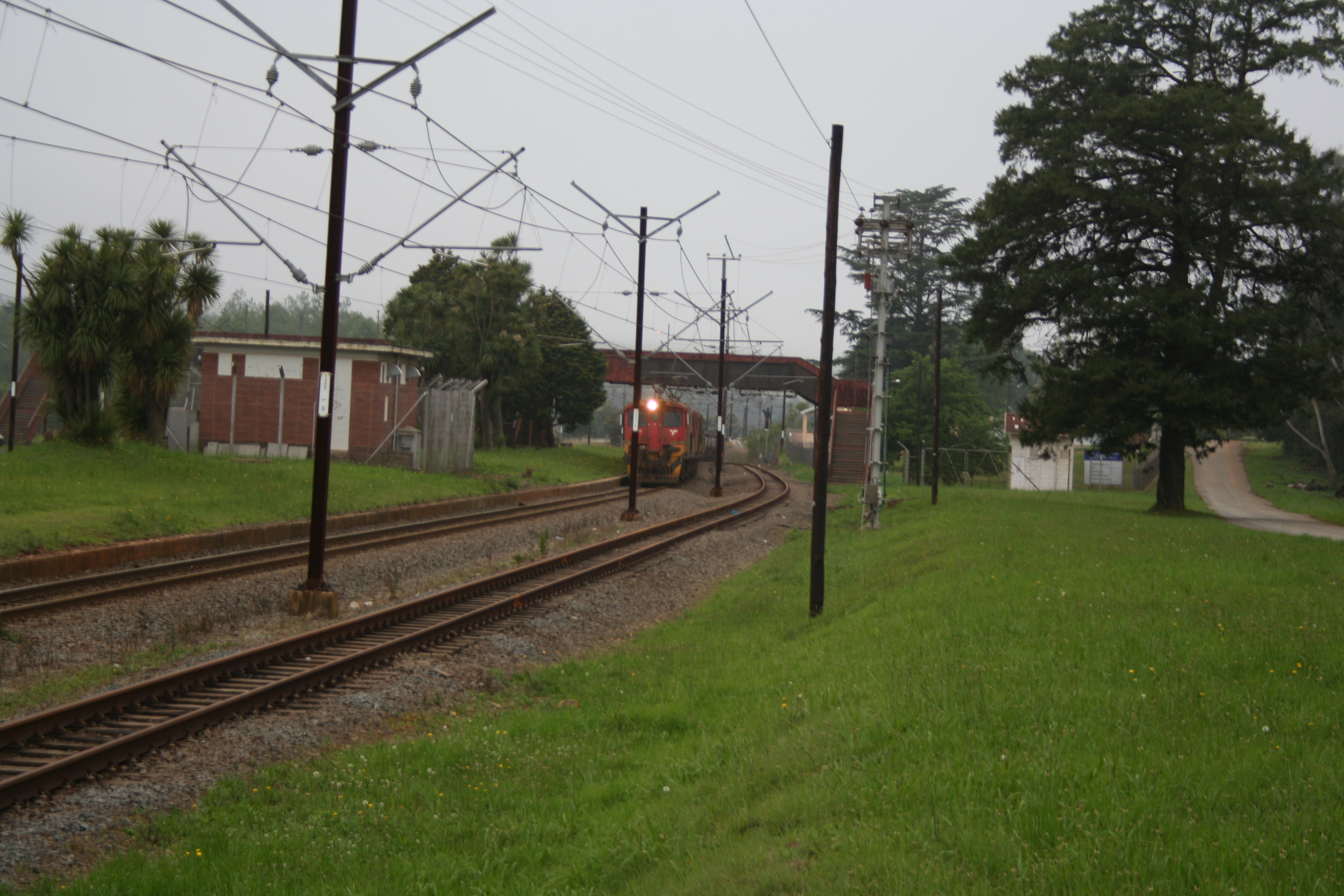 Goods train approaching Balgowan station in KZN, South Africa, 28 Oct 2012